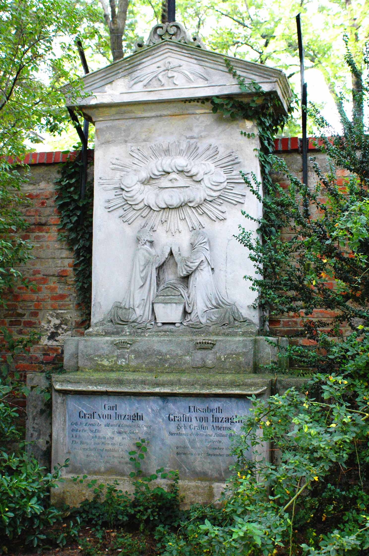 Währinger village cemetery (18.Wiener district of Währing). closed in 1873 and since 1925 Schubert Park (Währingerstraße 123).